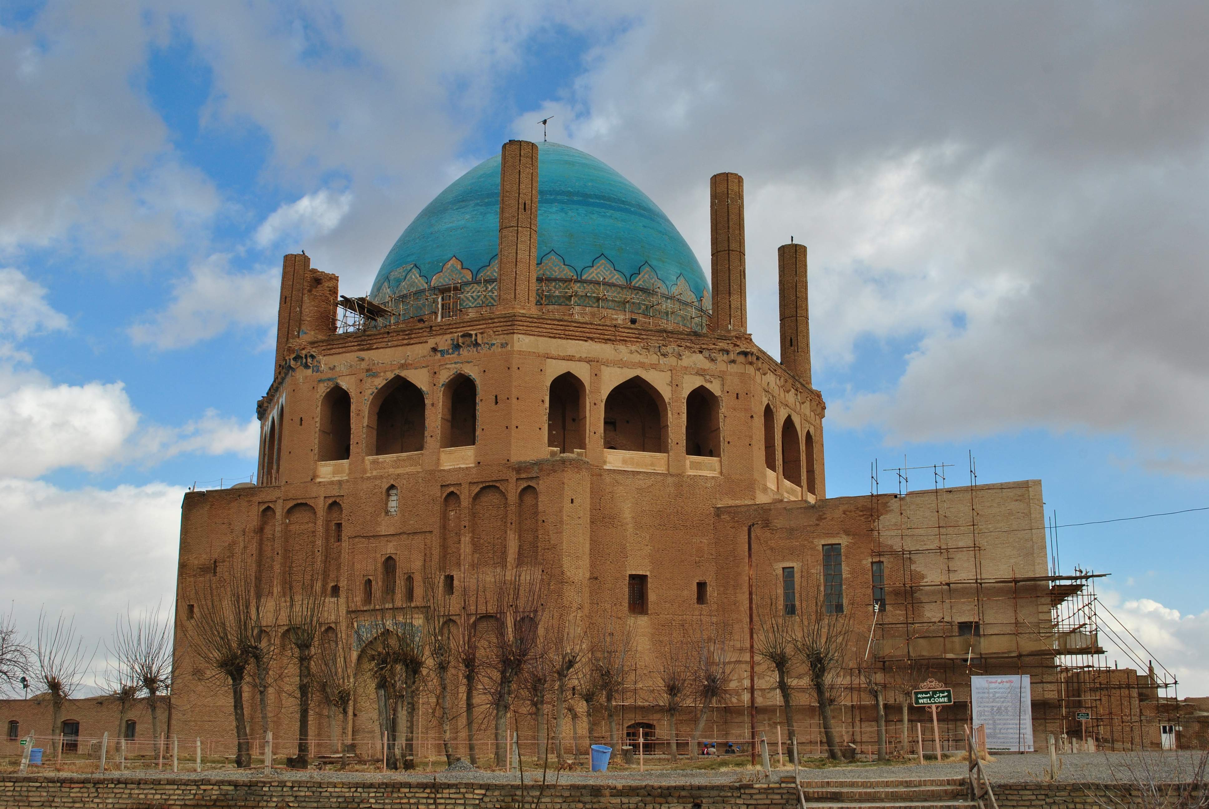 Own work